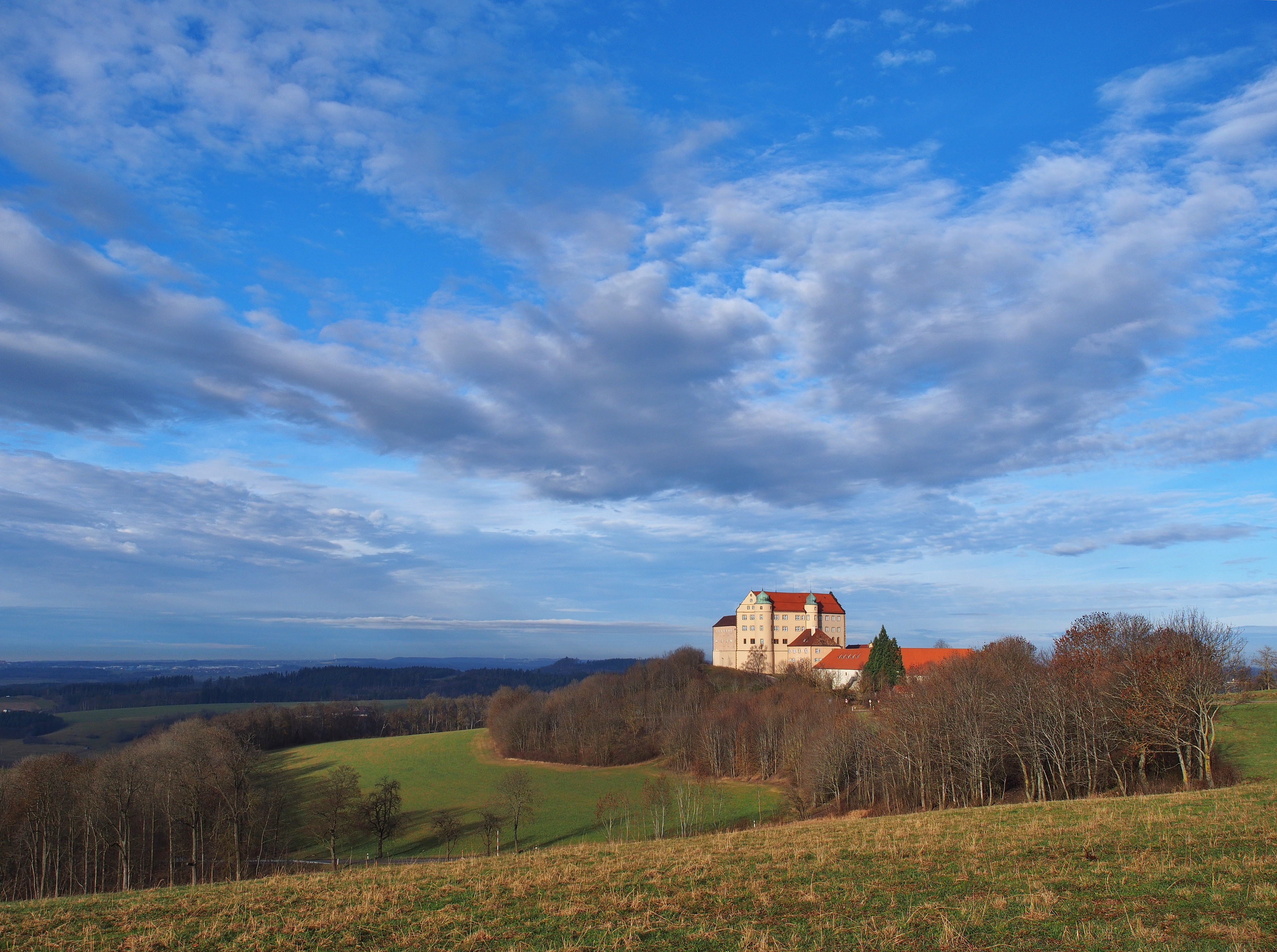 Kapfenburg Castle, Lauchheim, Germany